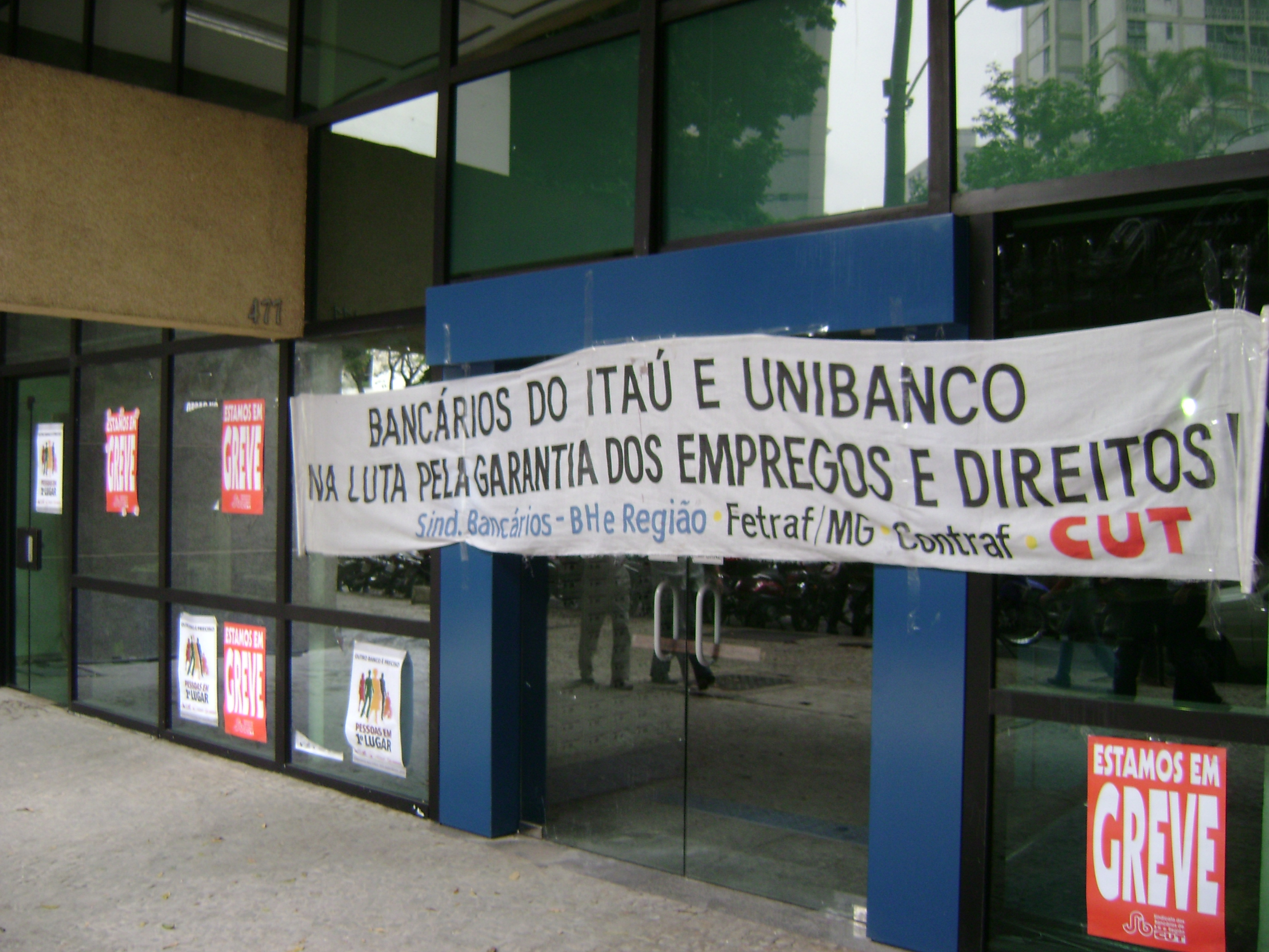 Strike banners in Itaú Unibanco entrance, in Belo Horizonte, Brazil.